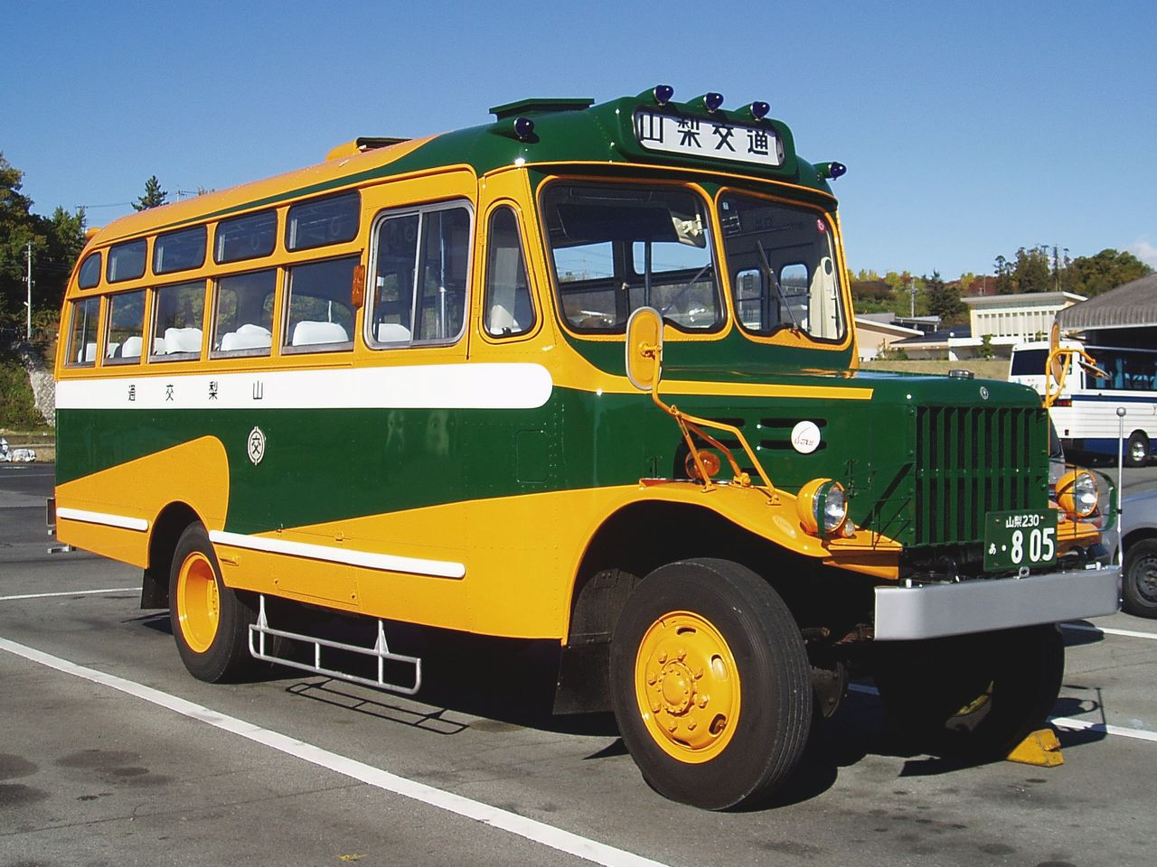 Yamanashi Kotsu Isuzu TSD40 "Bonnet Bus" 2007.11.13 Photo by Cassiopeia_sweet. This picture is obtaining and photoing permission of the persons concerned.